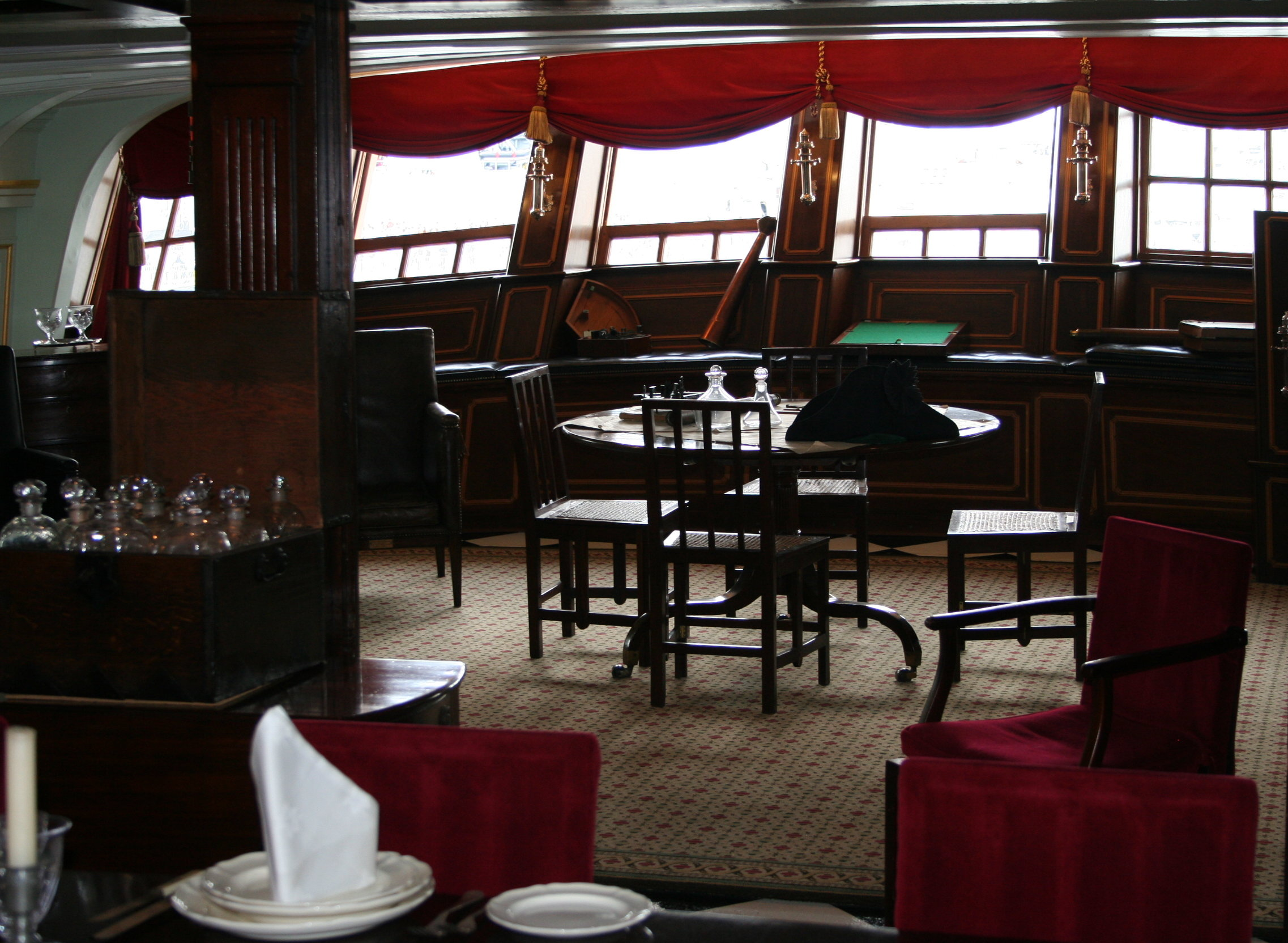 Admiral's cabin on HMS Victory at Portsmouth Naval Dockyard.